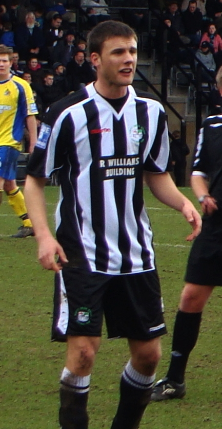 Jonathan Smith playing for Forest Green Rovers against Altrincham at The New Lawn, Nailsworth on 27 March 2010